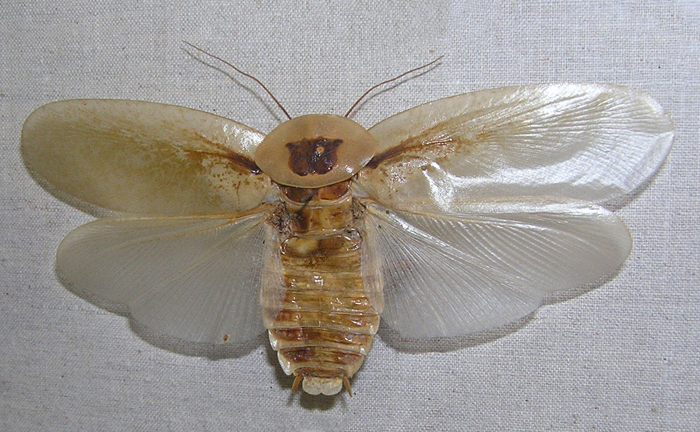 Archimandrita marmorata, on display in Saint Petersburg Zoology Museum, Russia.